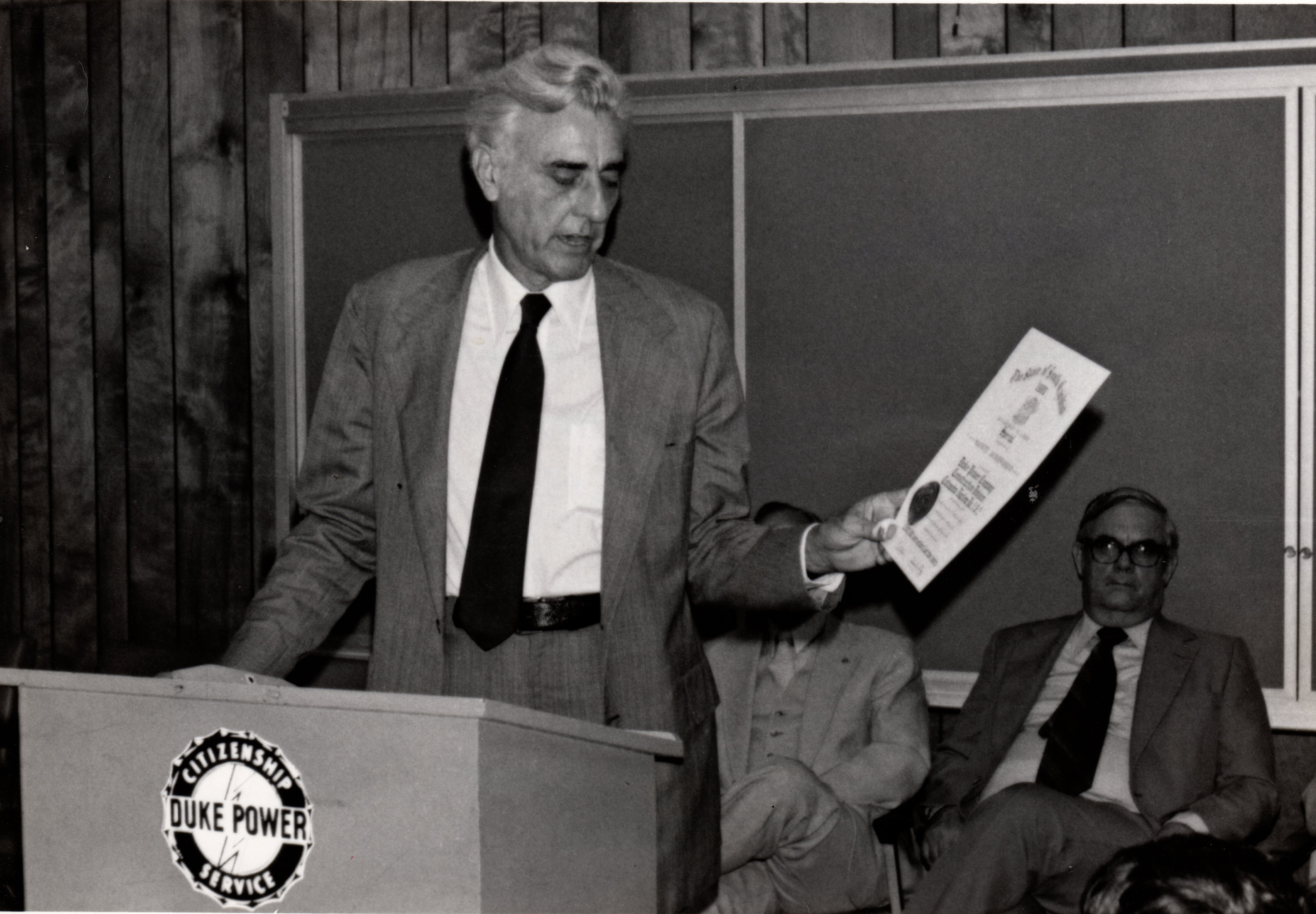 Commissioner McGowan presents a special certification of safety achievement to Duke Power Company for 1,500,000 hours without a lost time injury